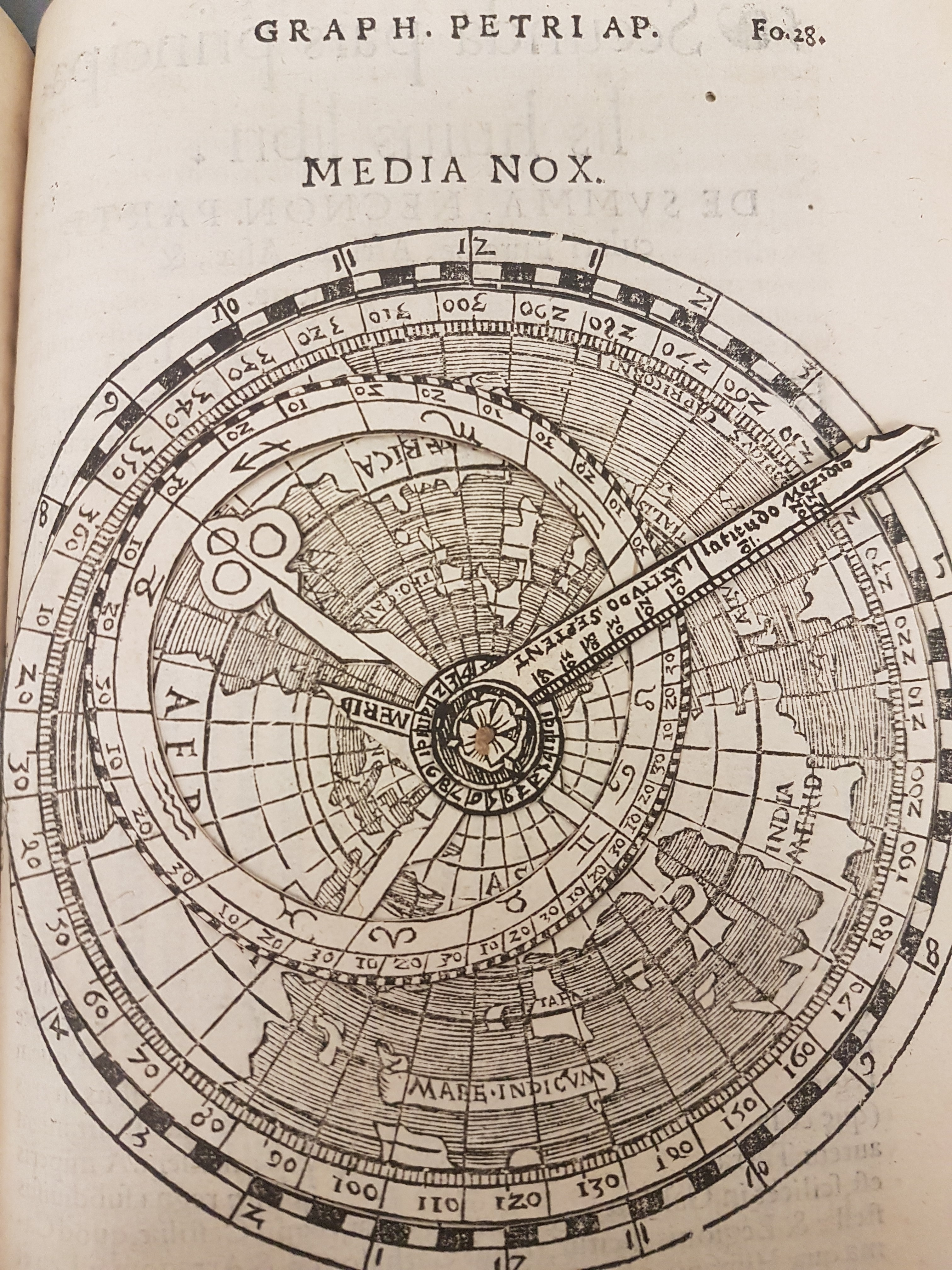 Moveable volvelles from Petrus Apianus, Cosmographia, 1545